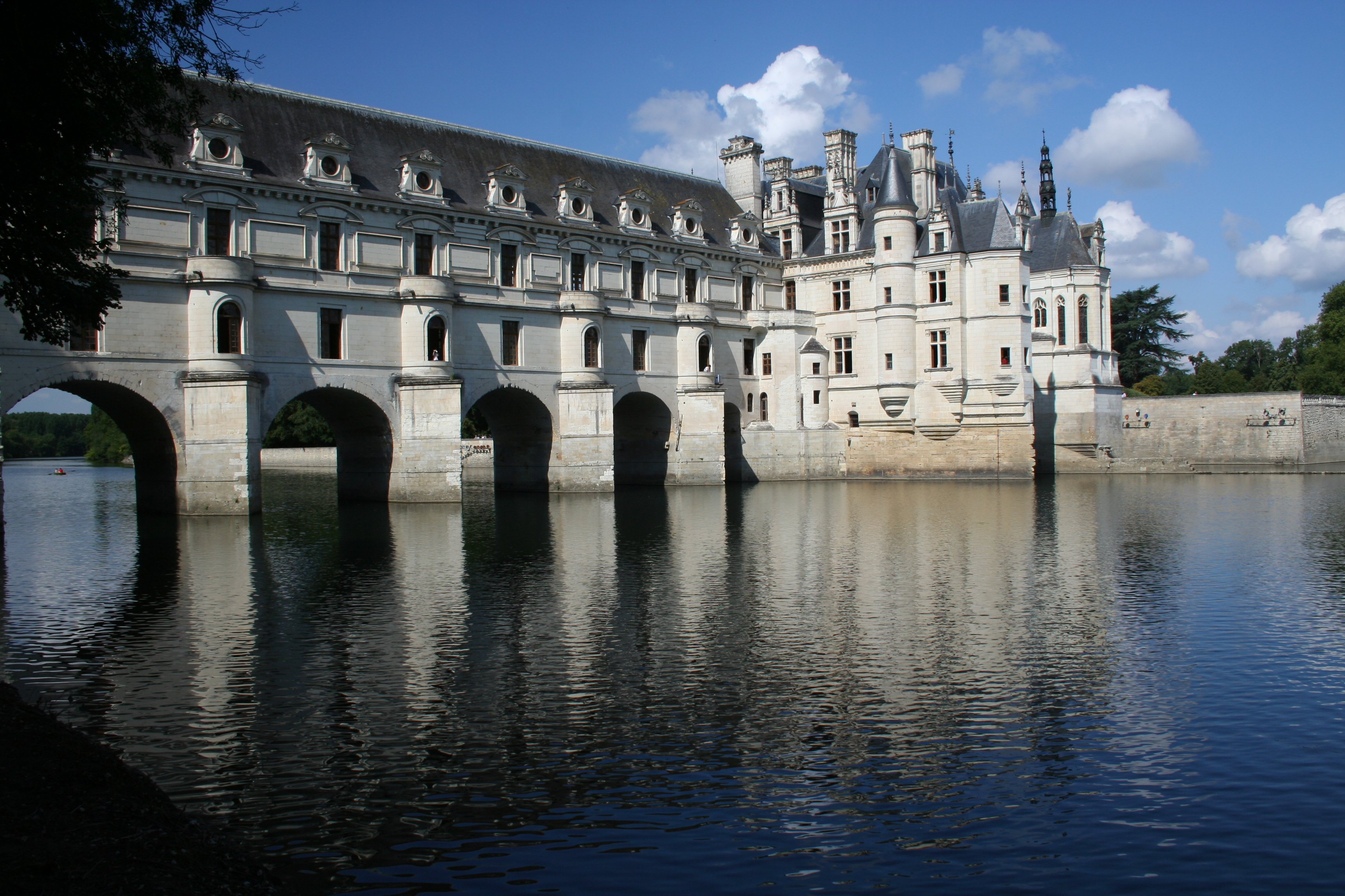 Chenonceau castle, France.